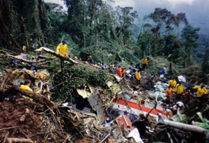 Photo of crash site